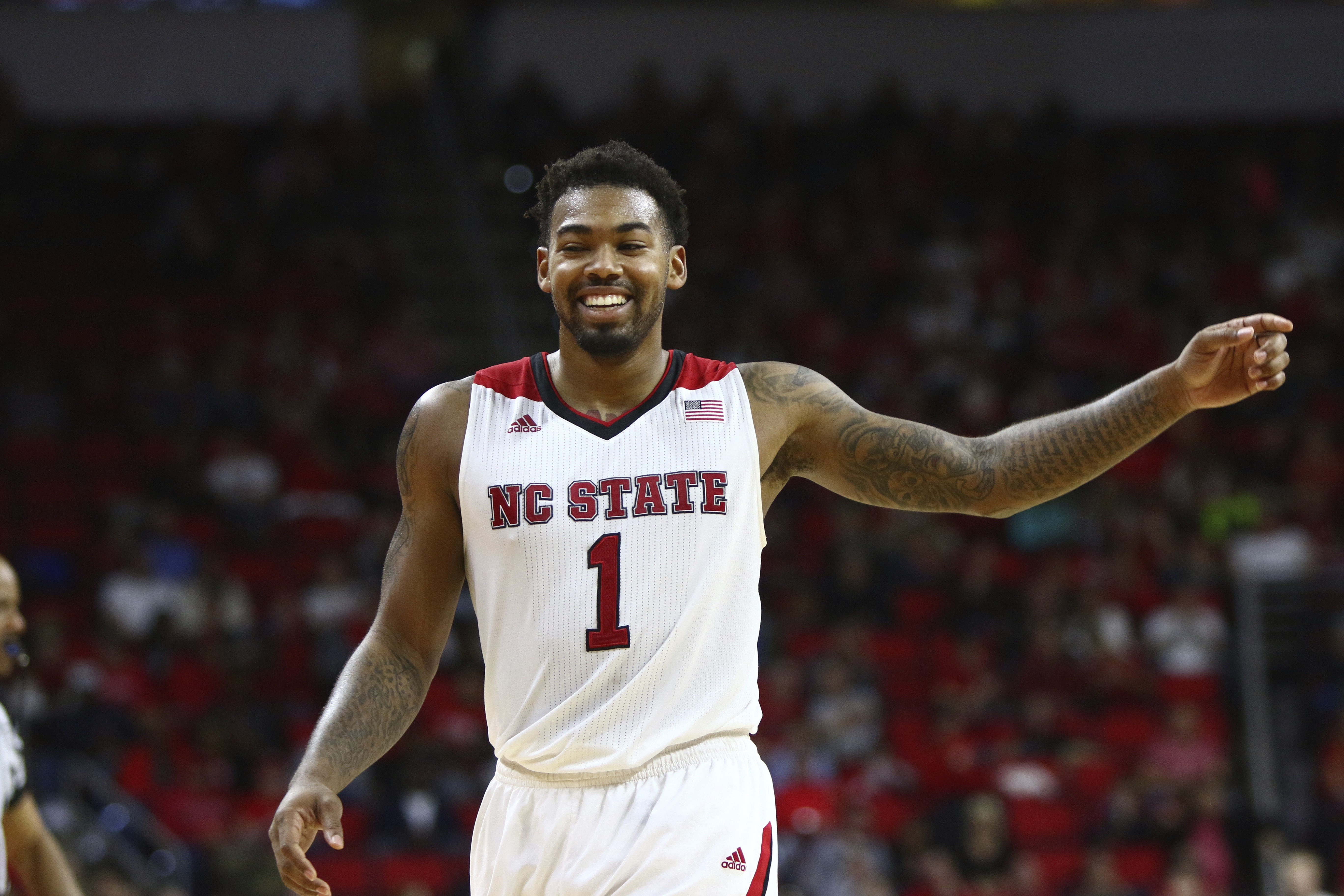 Trevor Lacey (01) led all scorers with 19 points. NC State defeated Pittsburgh by a score of 68-50 on January 3, 2015 at the PNC Arena in Raleigh, North Carolina. (Photo by: Jerome Carpenter/WRAL Contributor)